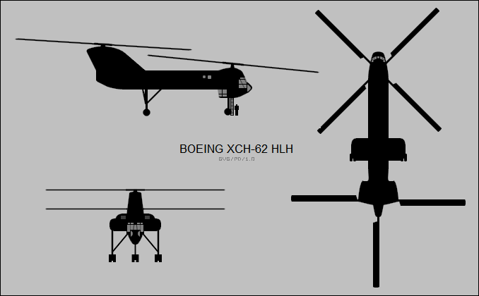 Three-view image of Boeing XCH-62 Heavy Lift Helicopter.